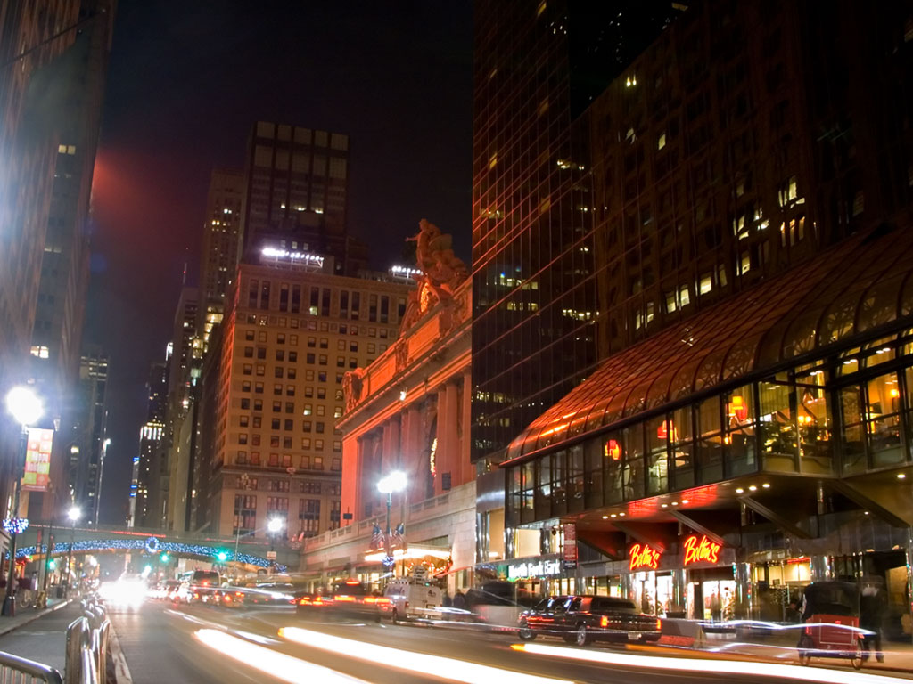 Grand Hyatt hotel, New York